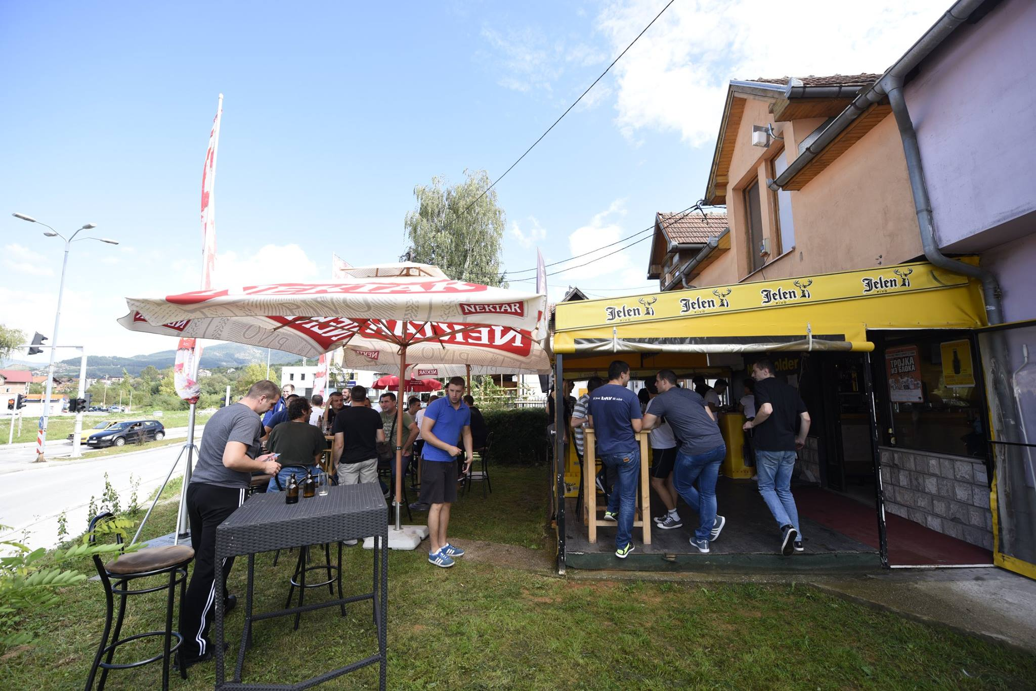 Promocija zanatskog piva